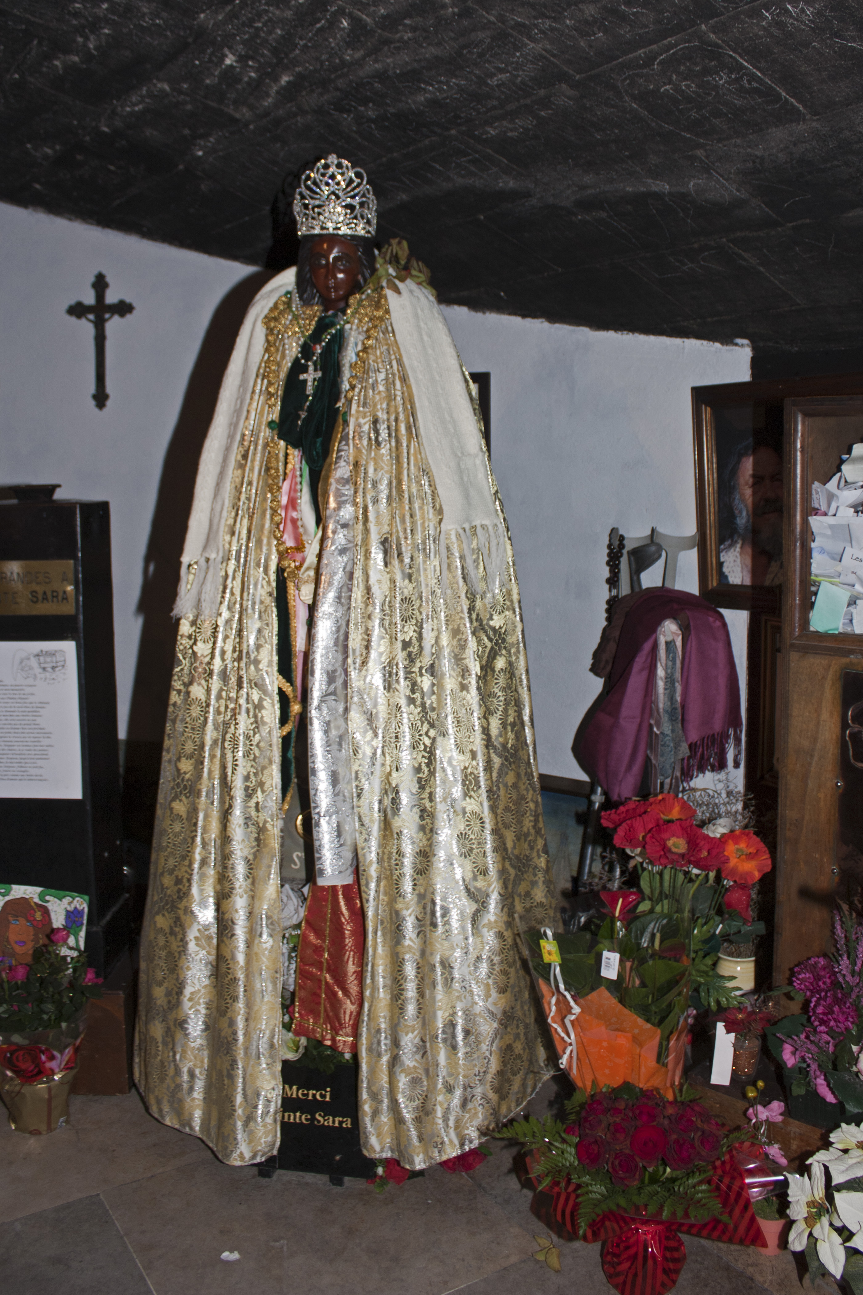 Saint Sarah in her coat of the day.